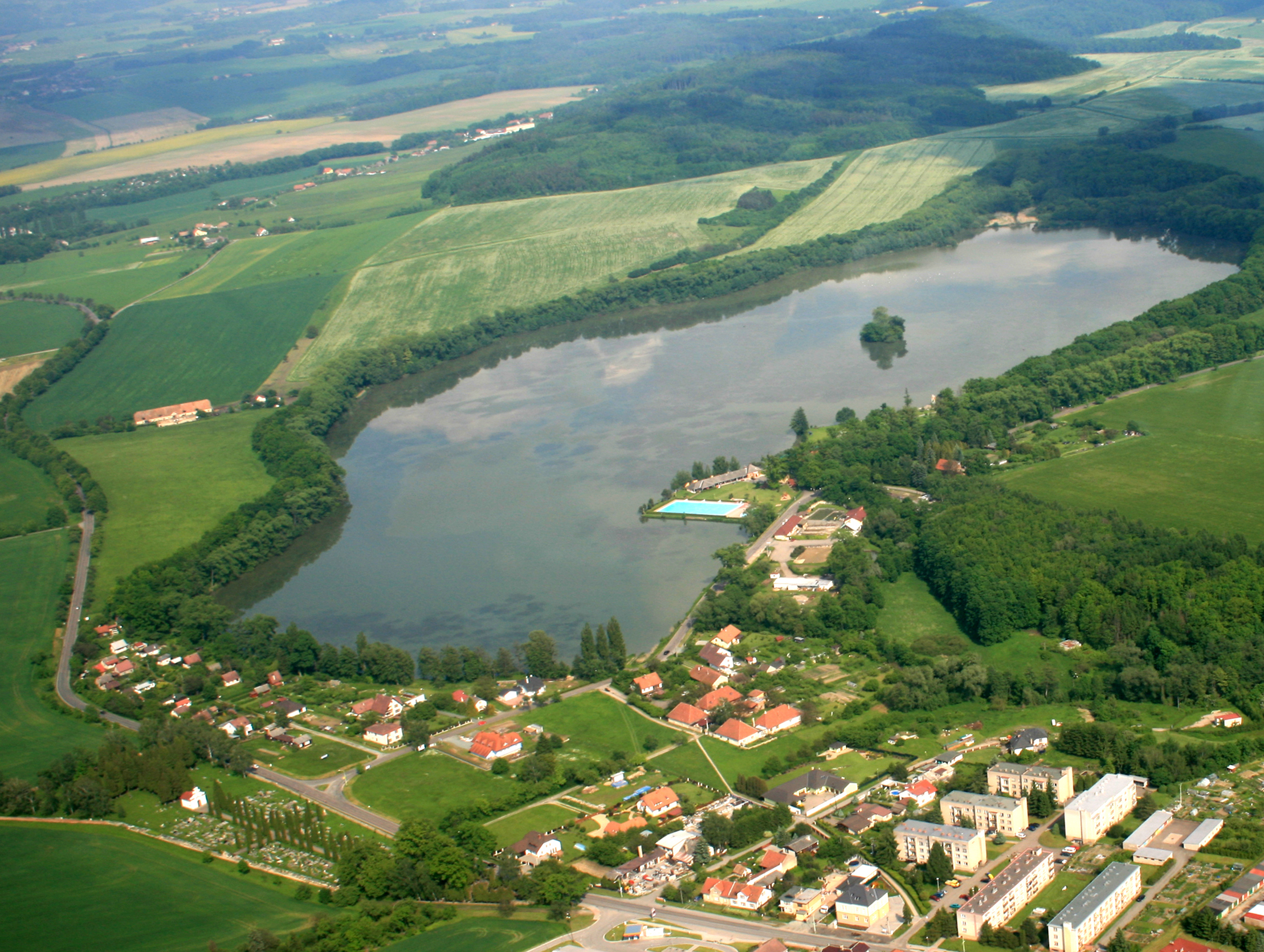 Part of town Opočno and pond Broumar from air, eastern Bohemia, Czech Republic